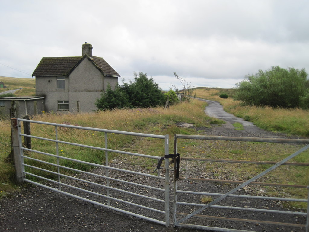 Waunavon railway station (site), Monmouthshire Opened in 1871 by the London & North Western railway on the line from Brynmawr to Pontypool, this station closed in 1941. View south east towards Blaenavon and Pontypool.